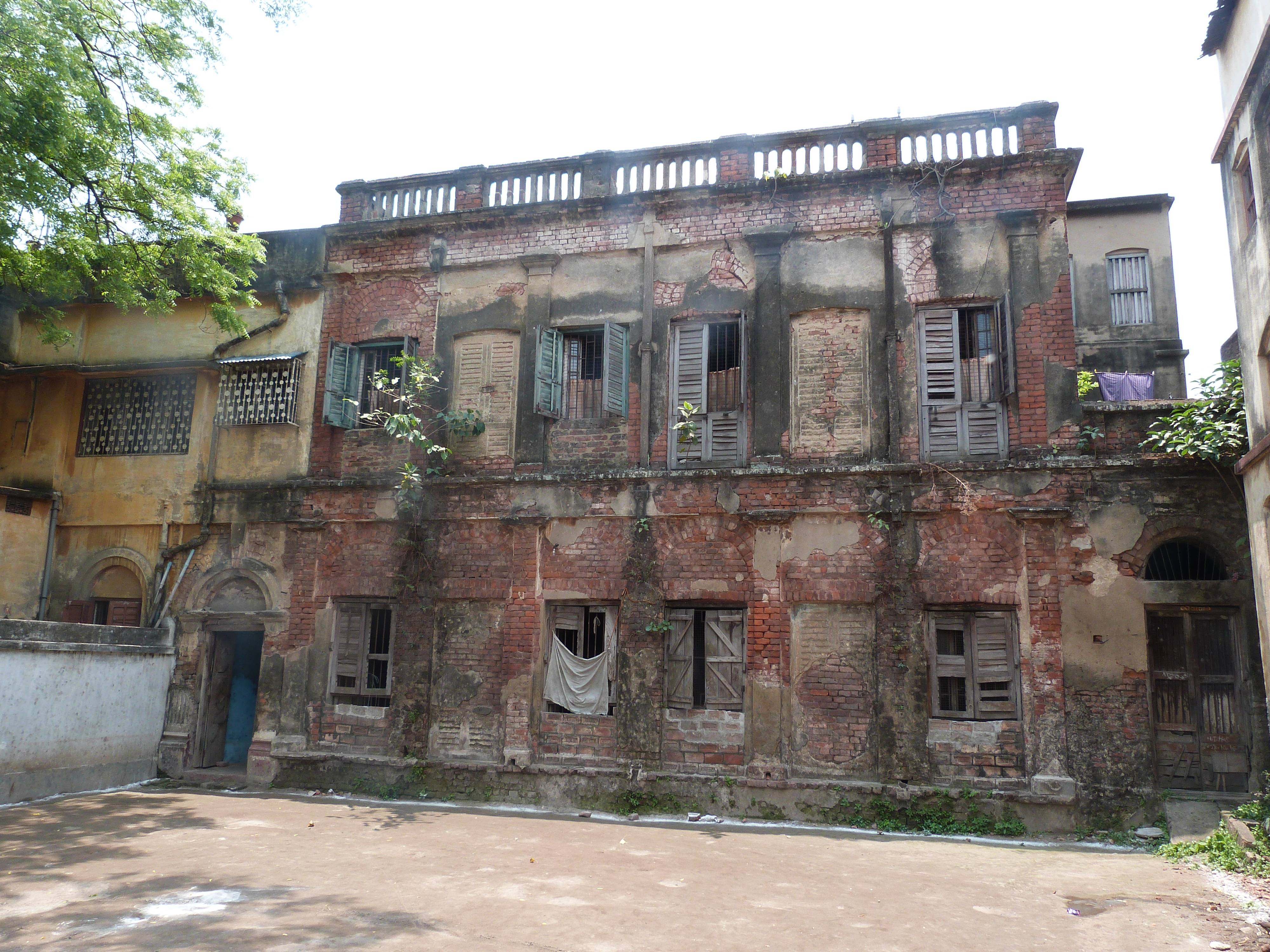 Bankimchandras house 218 Panchanantala Road (not 212 Panchanatala Road!) in Kolkata where he lived and worked from 1881 to 1886